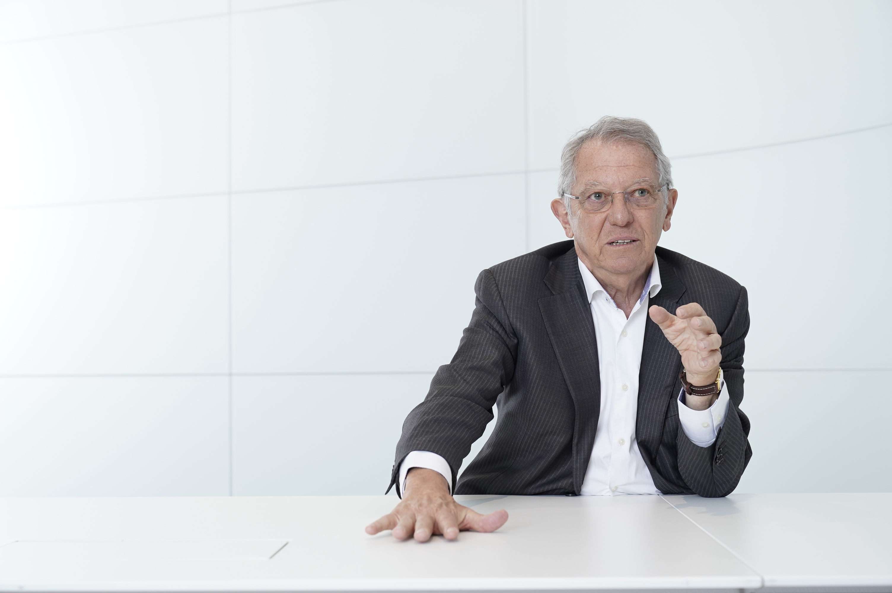 Sir David King in 2020